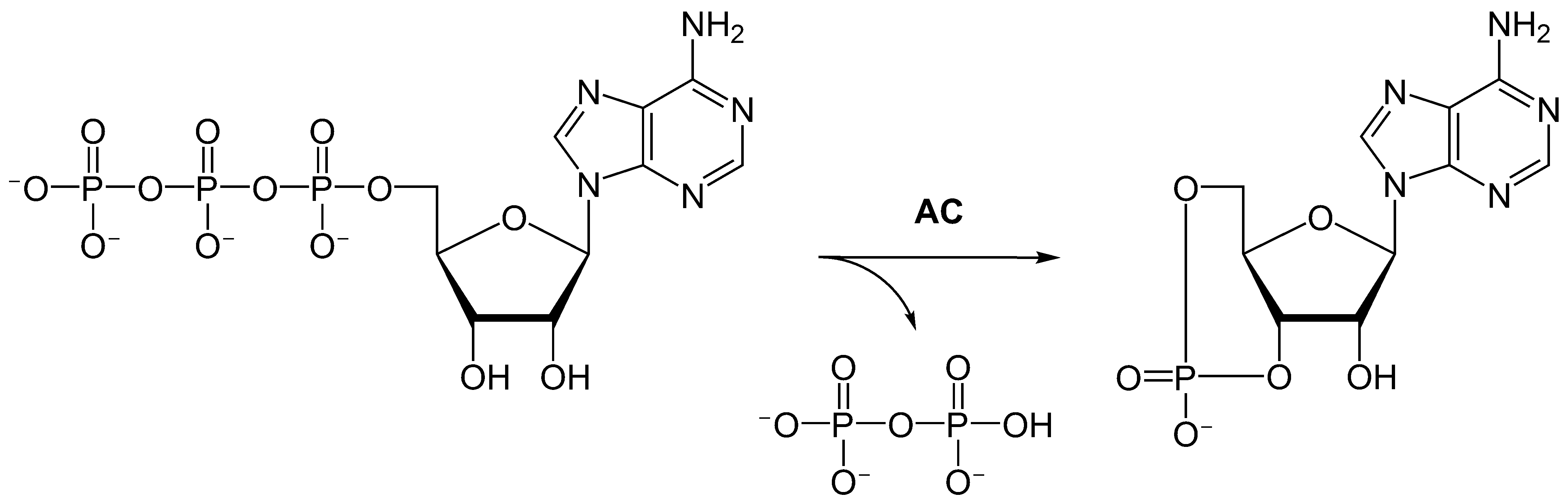 synthesis of cAMP from ATP by an adenylate kinase.